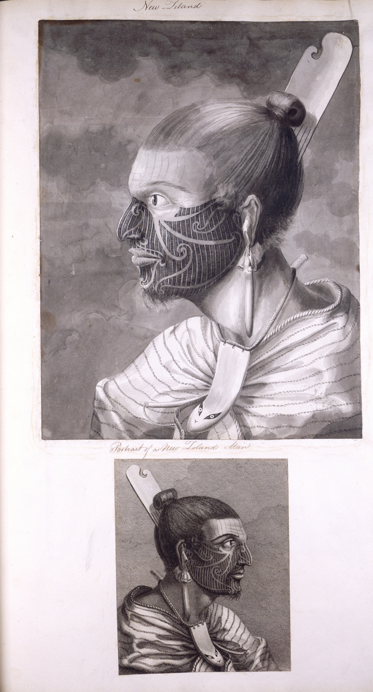 Portrait of a New Zealand man [Whole folio] Portrait of Otegoowgoow [Otegoonoon], son of a chief of the Bay of Islands. He has a comb in his hair, an ornament of green stone in his ear, and another of a fish's tooth round his neck. Joseph Banks records meeting him on 3 December 1769. Drawing by Sydney Parkinson, circa December 1769, with engraving below